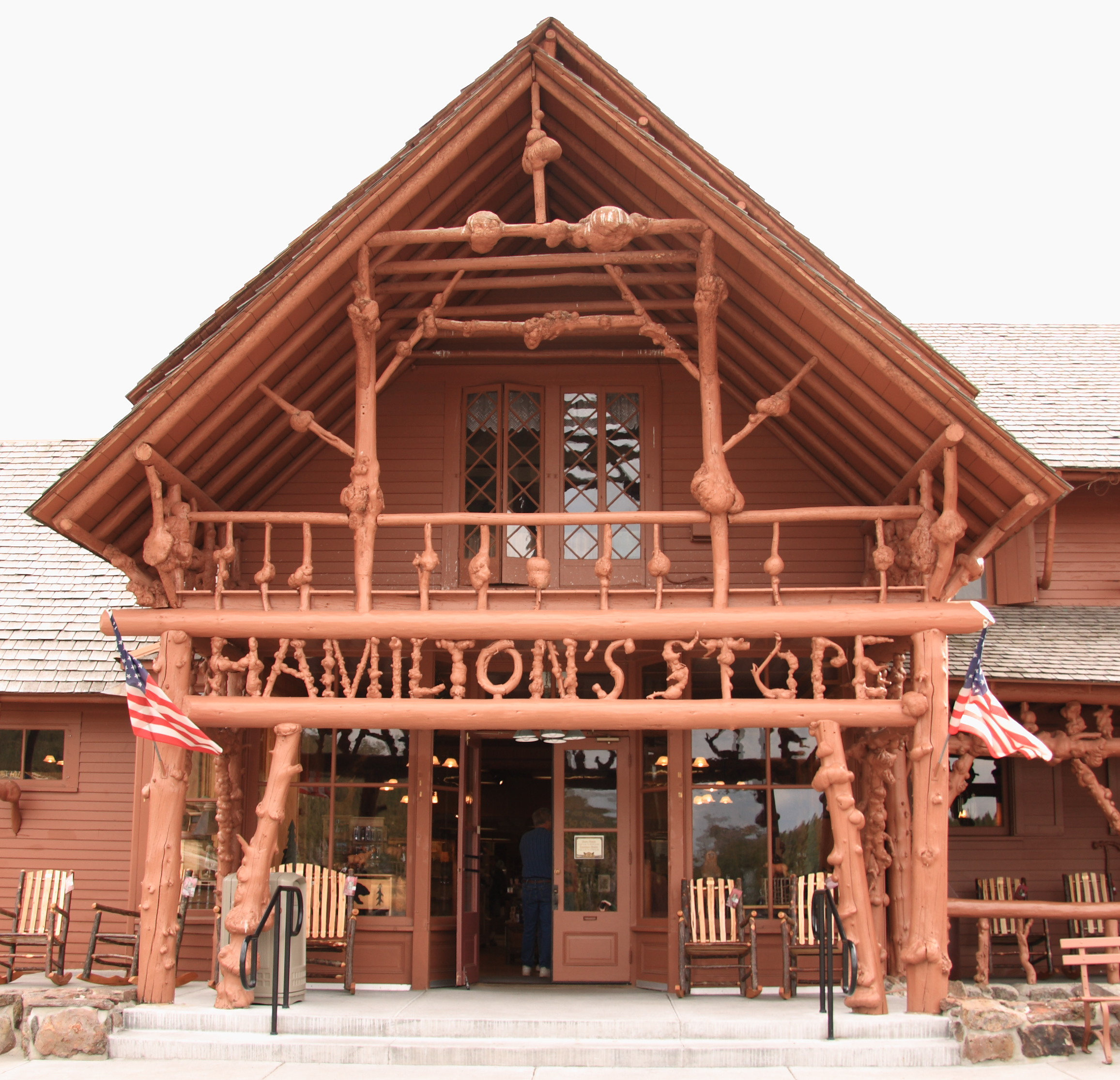 Front porch at Hamilton's Lower Store, Old Faithful, Yellowstone National Park, Montana, USA